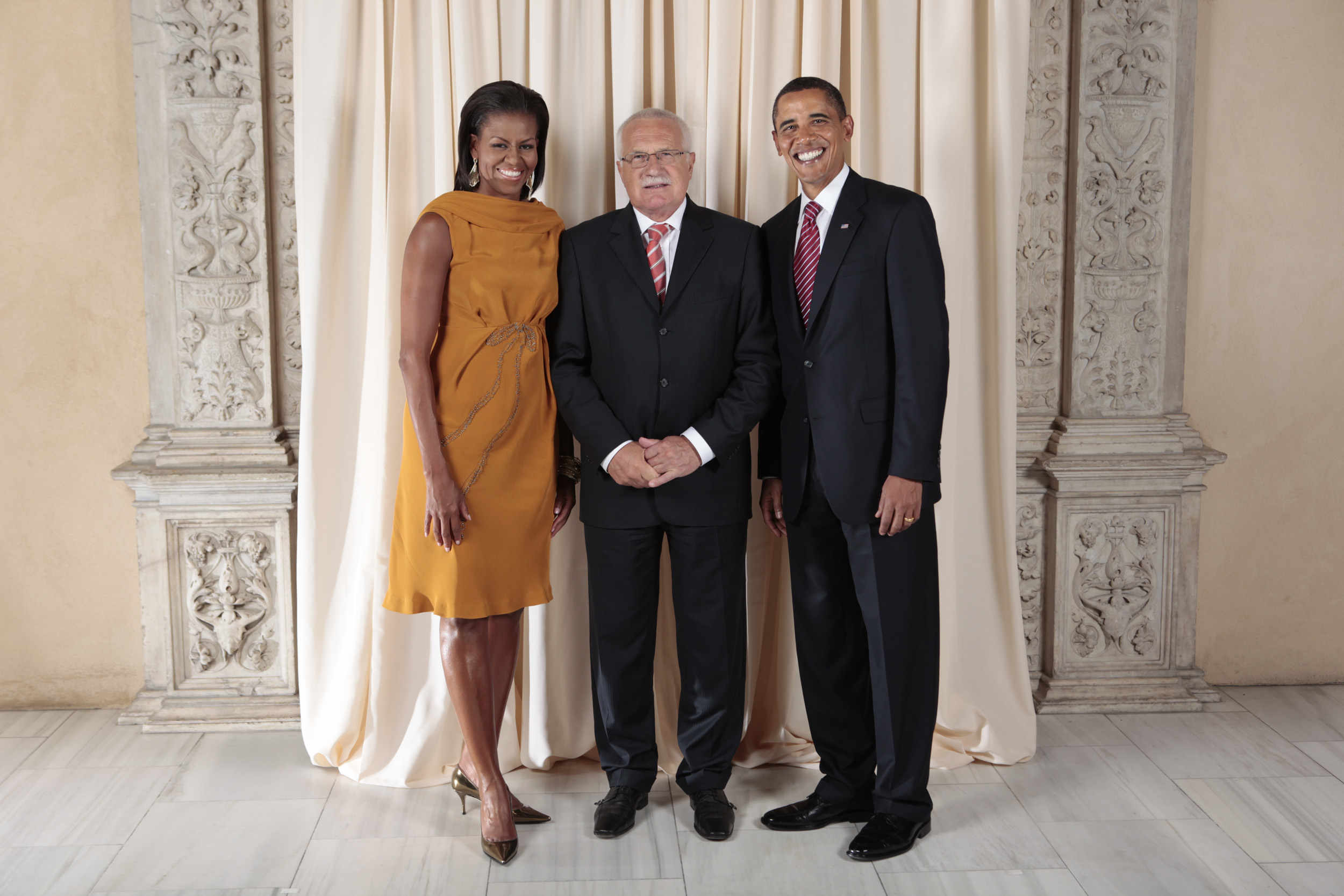 President Barack Obama and First Lady Michelle Obama pose for a photo during a reception at the Metropolitan Museum in New York with Vaclav Klaus, President of the Czech Republic.